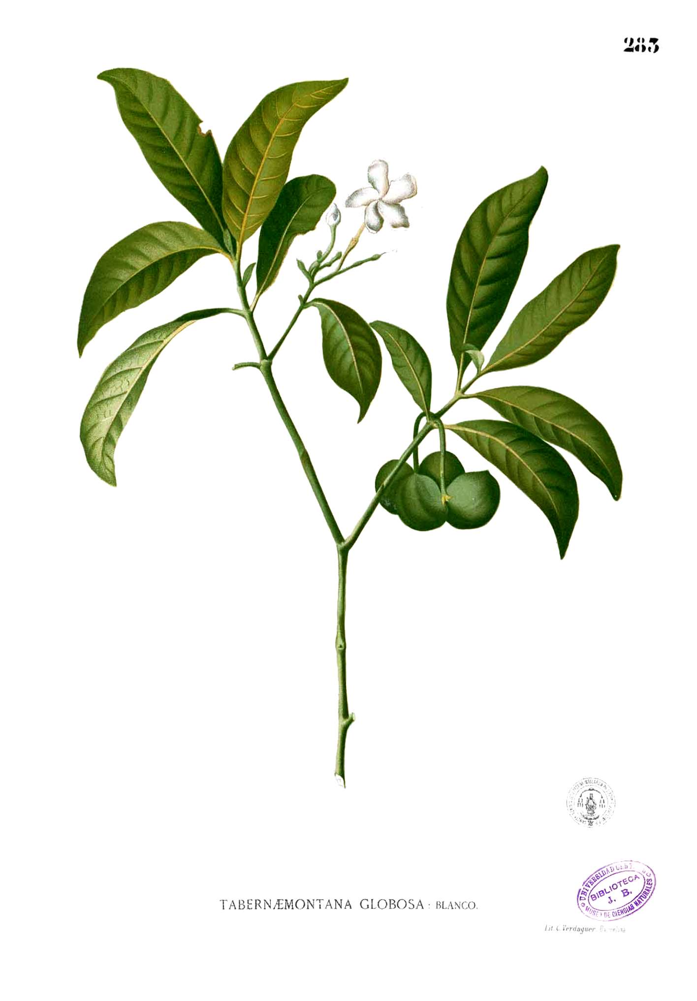 Plate from book